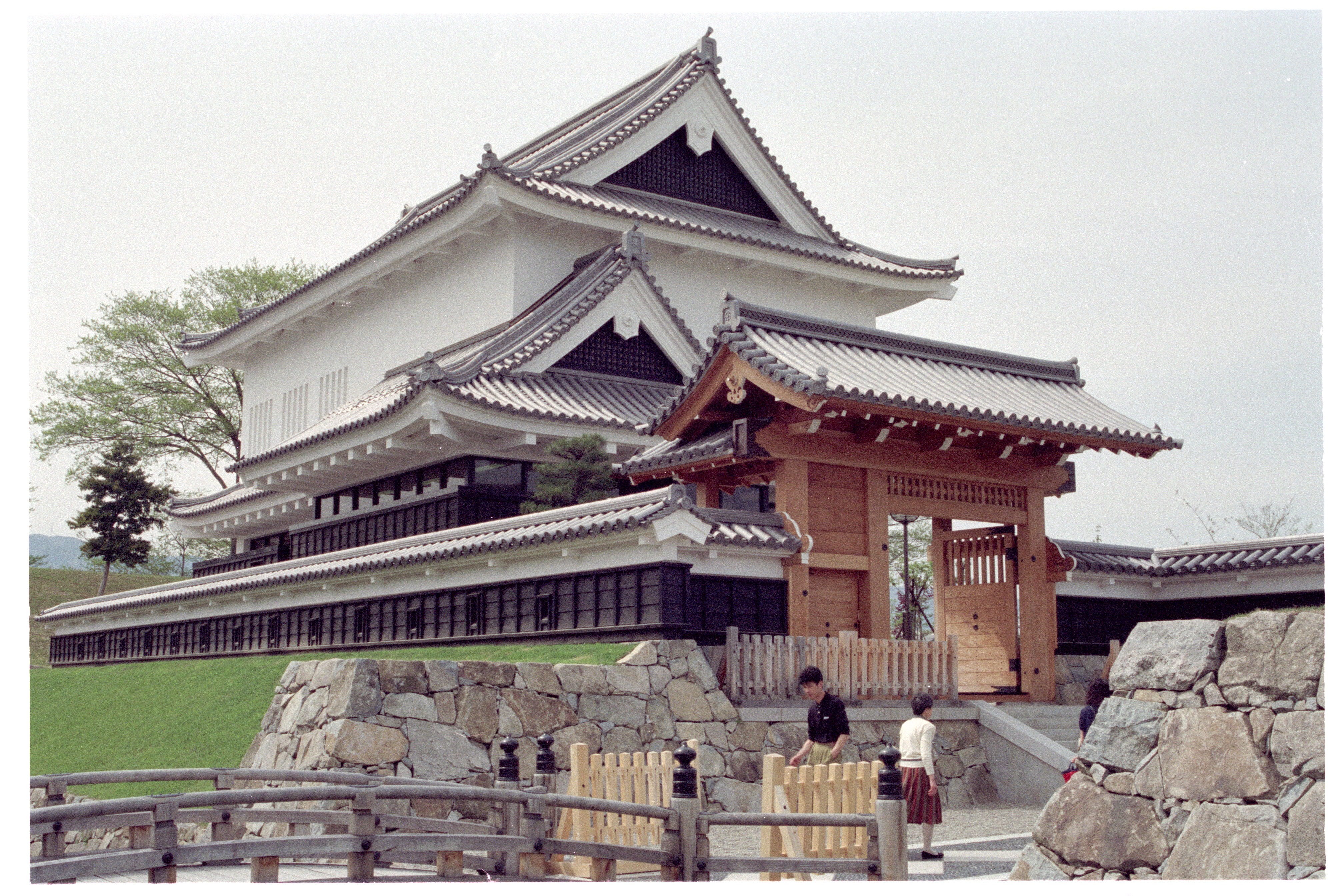 Shoryuji Castle is located in Nagaokakyo, Kyoto, Japan.